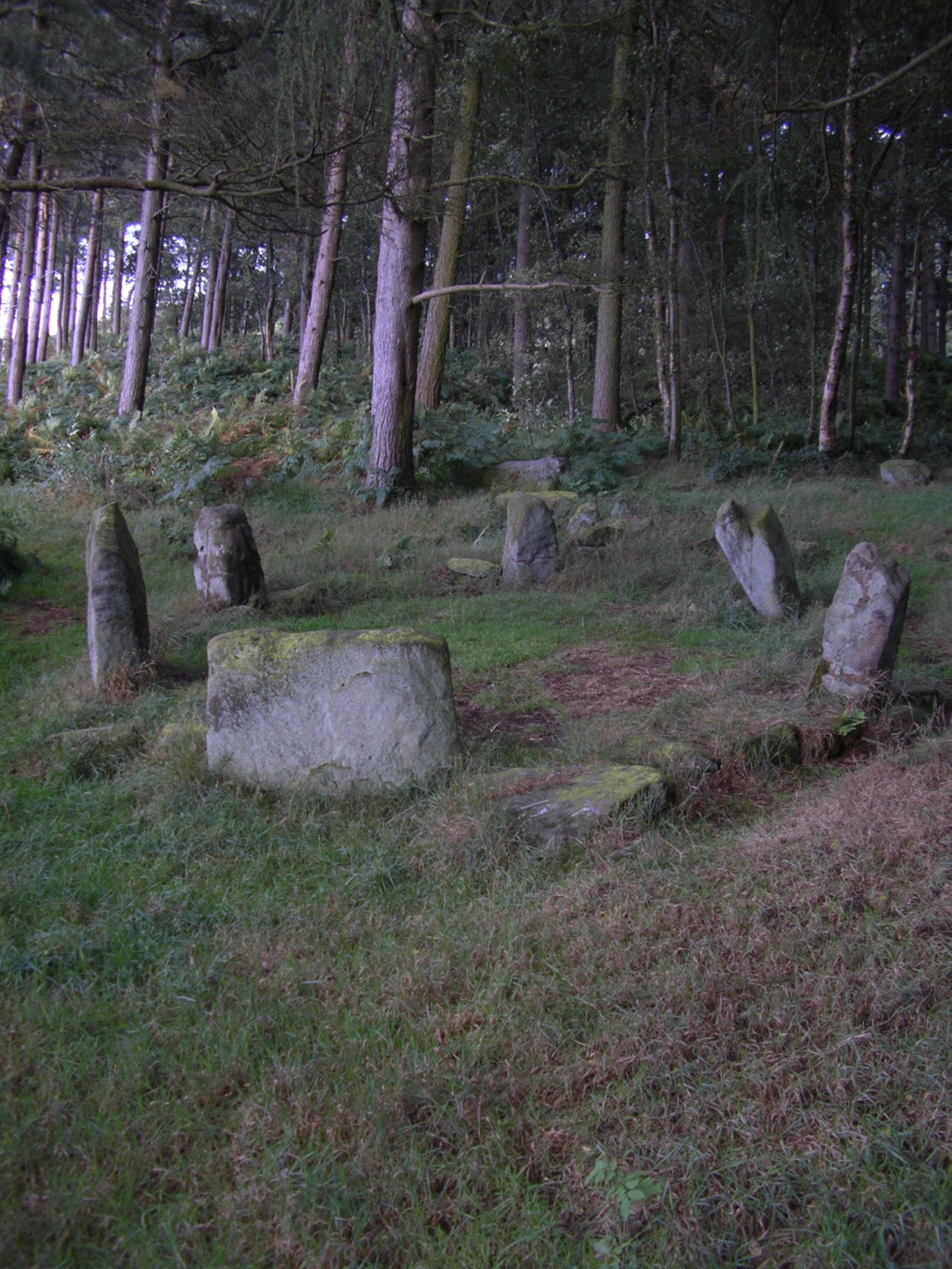 The Doll Tor stone circle, near Birchover in Derbyshire.